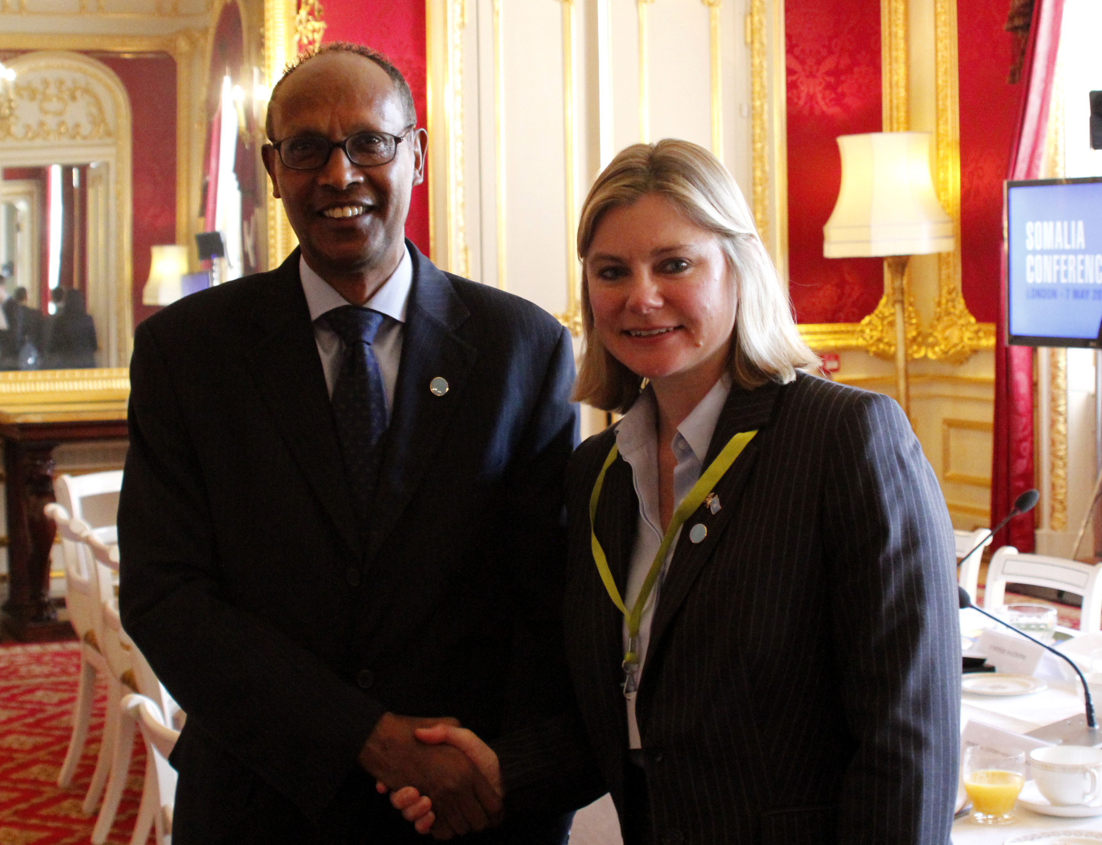 International Development Secretary Justine Greening with Mohamed Hassan Suleyman, Minister of Finance, Federal Government of Somalia after the aid coordination round table this morning. Somalia Conference 2013 The Governments of the UK and Somalia are co-hosting an international conference on Somalia on 7 May in the UK. The conference aims to provide international support for the Government of Somalia as they rebuild their country after two decades of conflict. Find out more: Picture: Michael Haig/ Department for International Development Terms of use This image is posted under a Creative Commons - Attribution Licence, in accordance with the Open Government Licence. You are free to embed, download or otherwise re-use it, as long as you credit the source as Michael Haig/ Department for International Development.